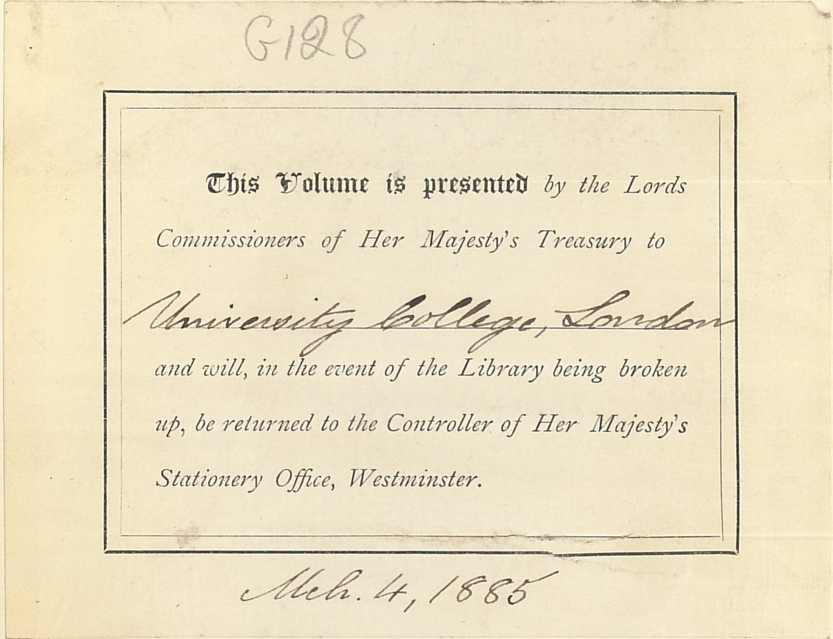 Standard label inserted in Rolls Series volumes, stating "This Volume is presented by The Lords Commissioners of Her Majesty's Treasury to [blank] and will, in the event of the Library being broken up, be returned to the Controller of Her Majesty's Stationery Office, Westminster": in this case the blank is completed by hand as "University College, London", and the date March 4, 1885 added.